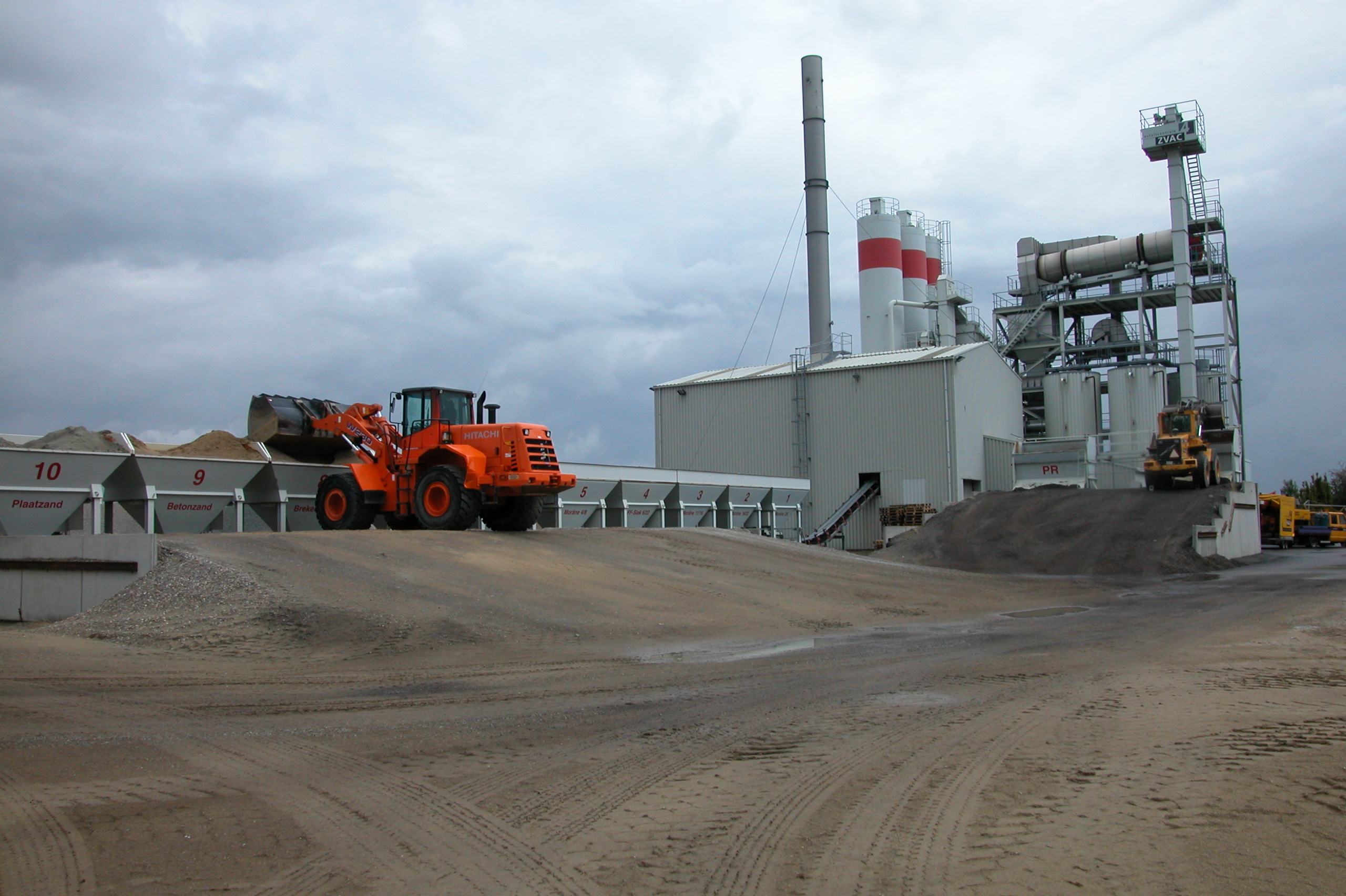 Asphalt plant with re-use